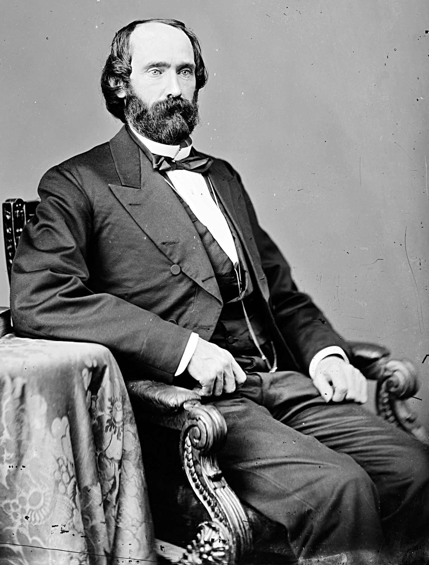 William L. Stoughton, US Representative from Michigan